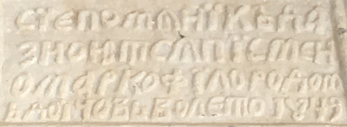 Inscription and icon above the opening door of St. Nicholas Church in the village of Vrben